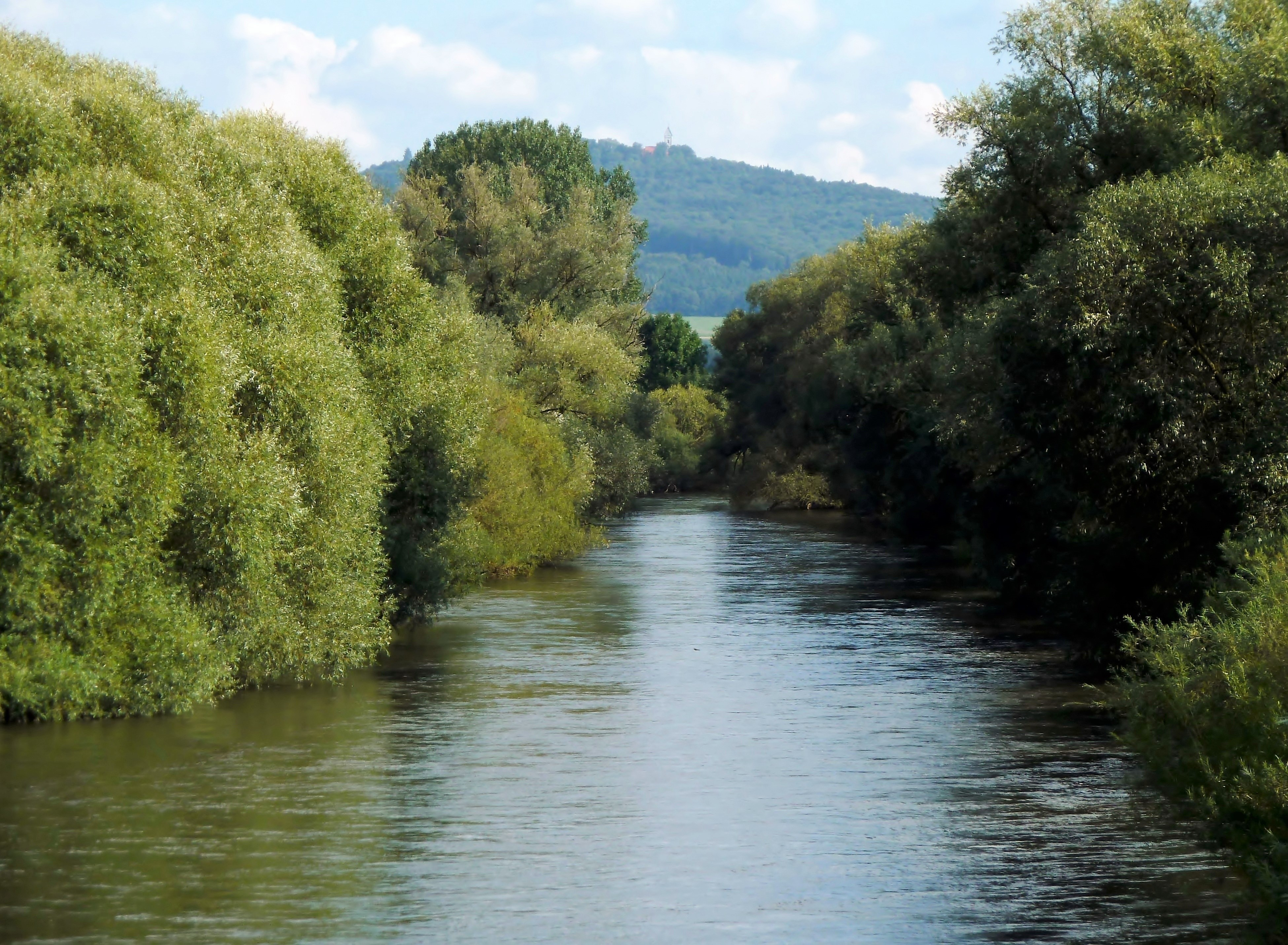 River Danube Meadows. Danube near Zell, Riedlingen. Church Bussen (767 meters above sea level).